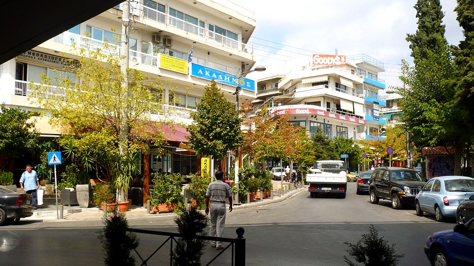 The picture depicts the Maroussi center/Athens/Greece.